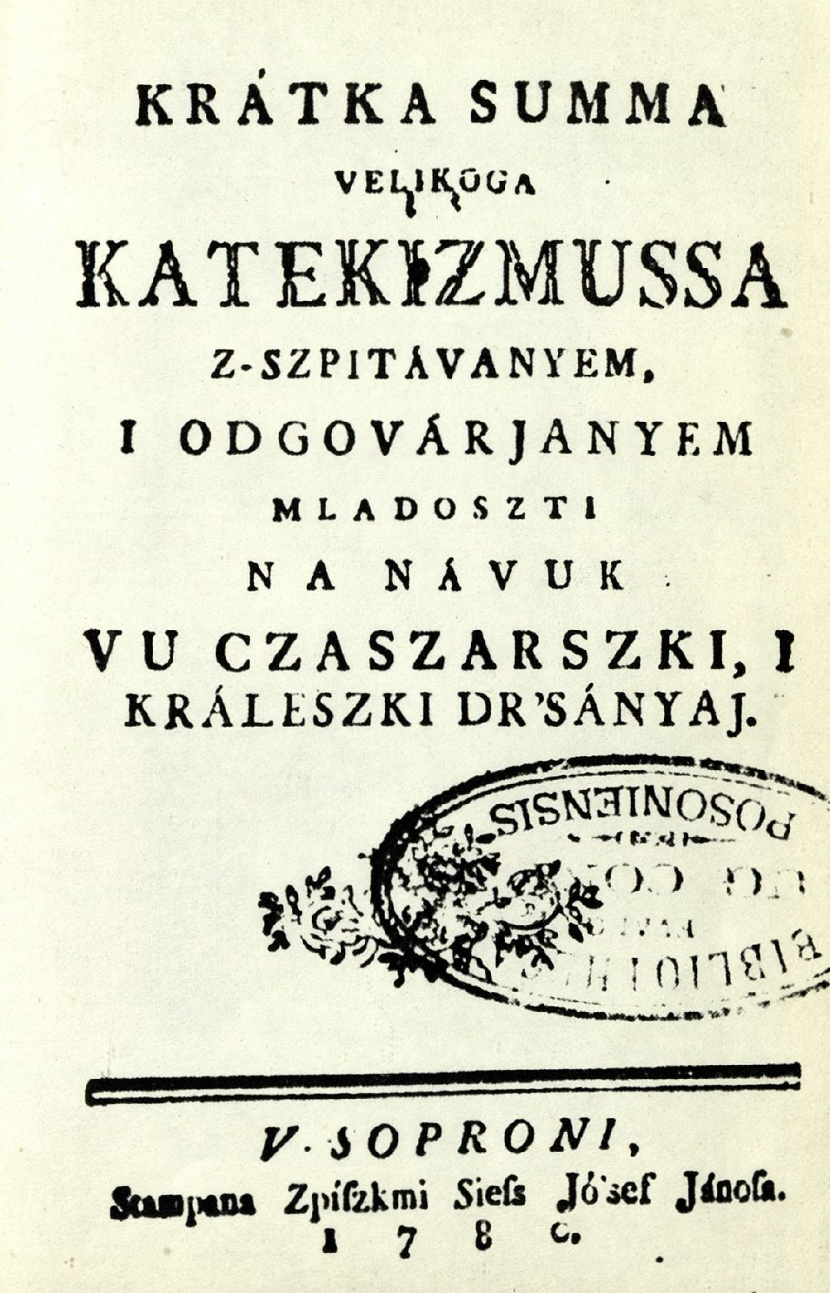 Krátka Summa Velikoga Katekizmussa, by Miklós Küzmics